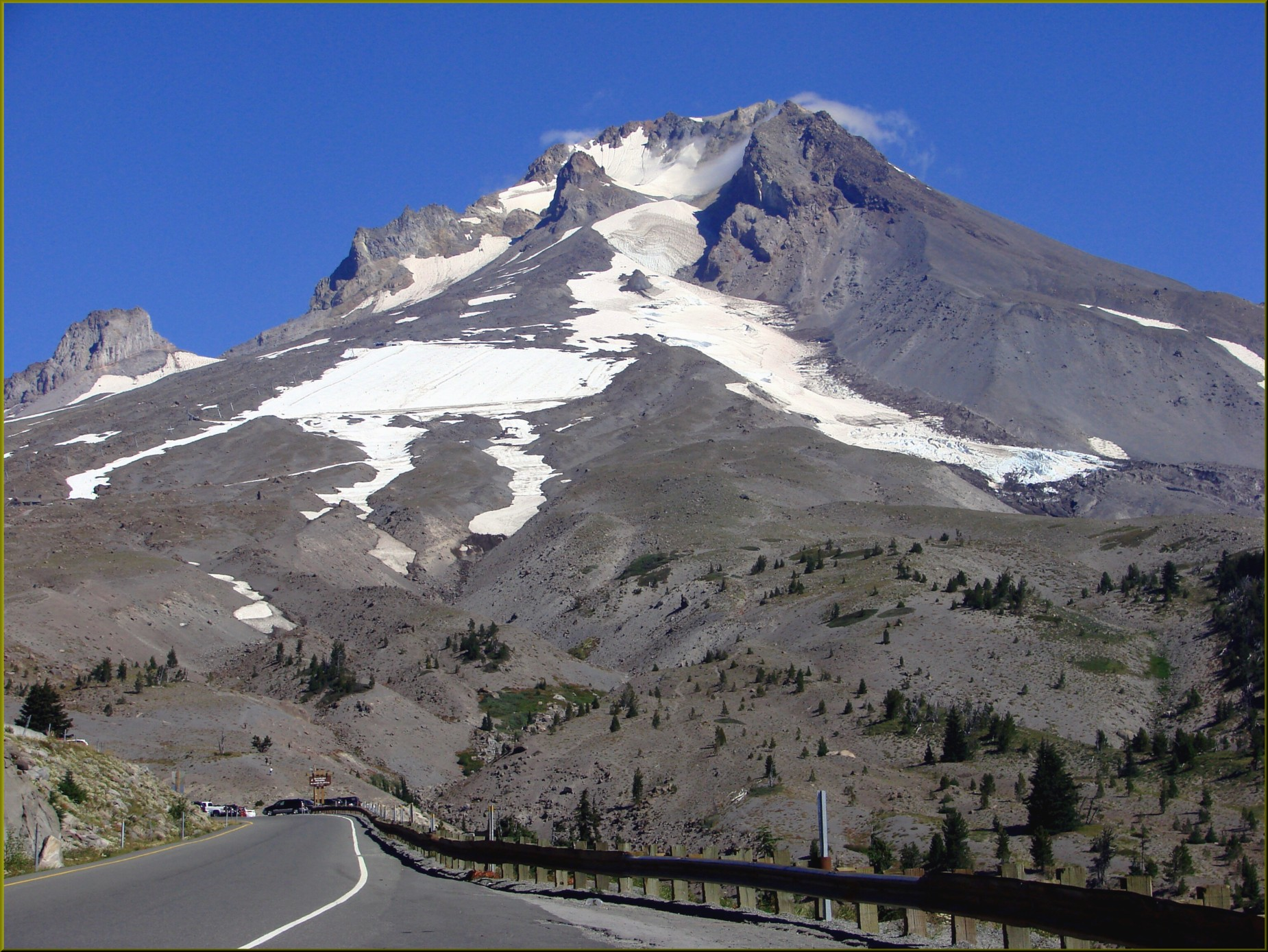 (1 in a multiple picture set) This shot is from the road just before it enters the Timberline Lodge area. The peak is quite spectacular close up and looks relatively easy to climb, but beware, for many people have died trying. You can see one of the glaciers in the picture, and you'll get a closr look at it in a later shot.